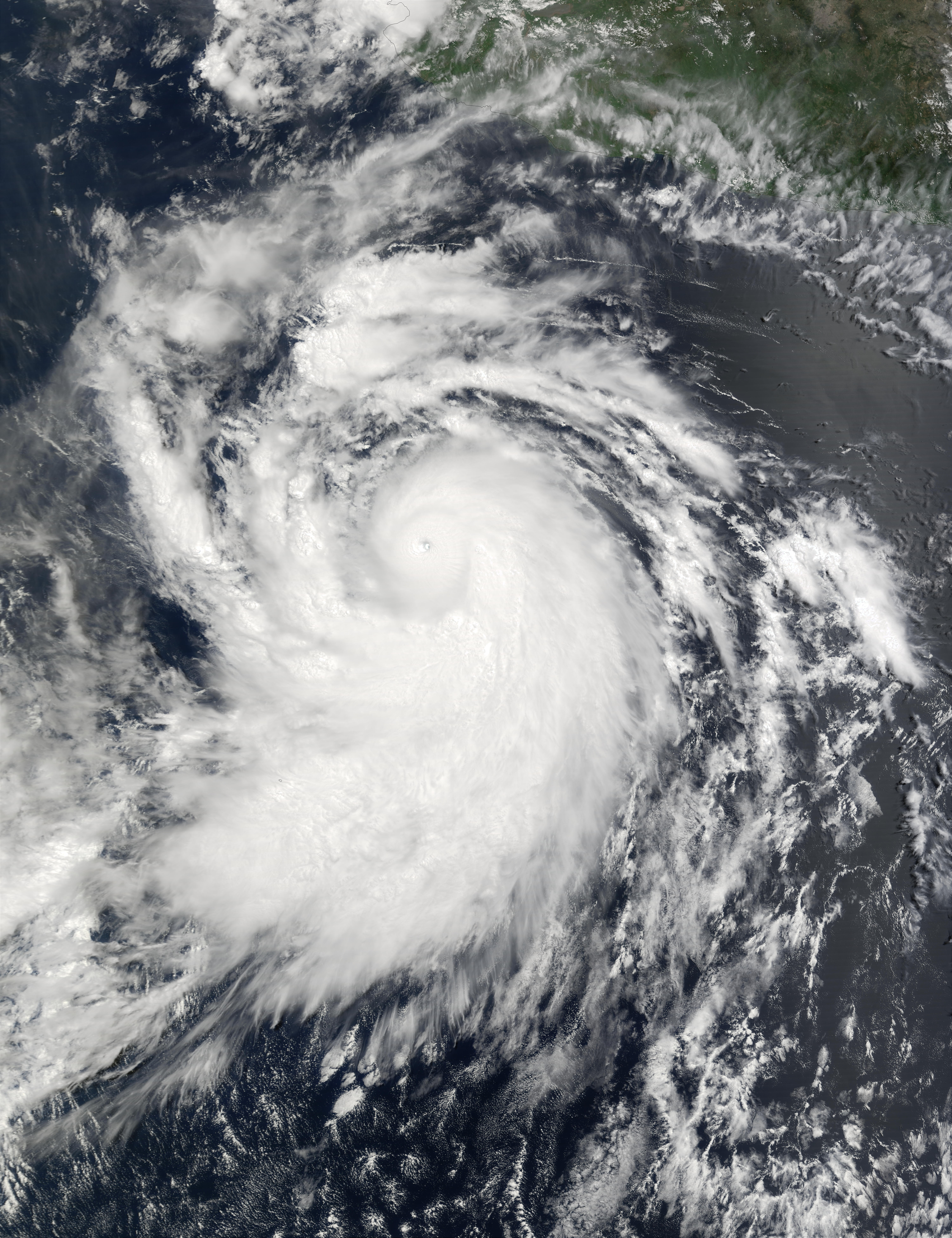 This true-color image from July 24, 2002, shows Hurricane Elida off the coast of Mexico in the Pacific Ocean. Elida may look like a large, menacing storm, but did not, in fact, make landfall. The common track for storms that originate in that part of the ocean is to drift northwest, away from land. They do, however, kick up powerful waves , which draws surfers from all over the world. The image was captured by the Moderate Resolution Imaging Spectroradiometer (MODIS) on NASA’s Terra satellite.